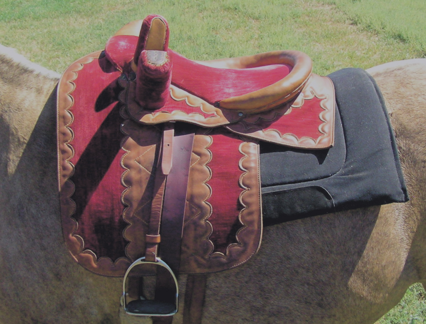 Western-styled Antique "catalogue" saddle, probably manufactured late 1800s, refurbished.